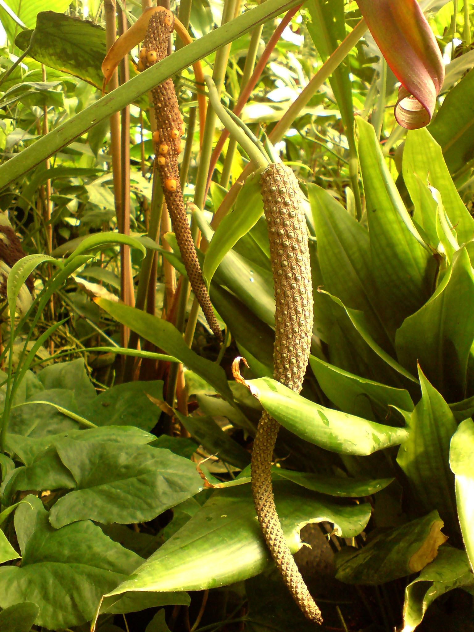 Anthurium andicola - Botanical Garden Göttingen